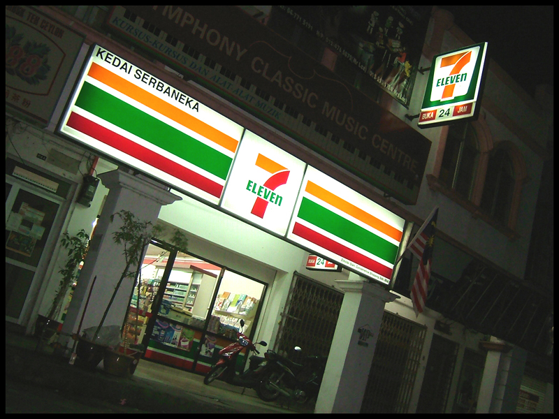 A 7-Eleven store in Malaysia.